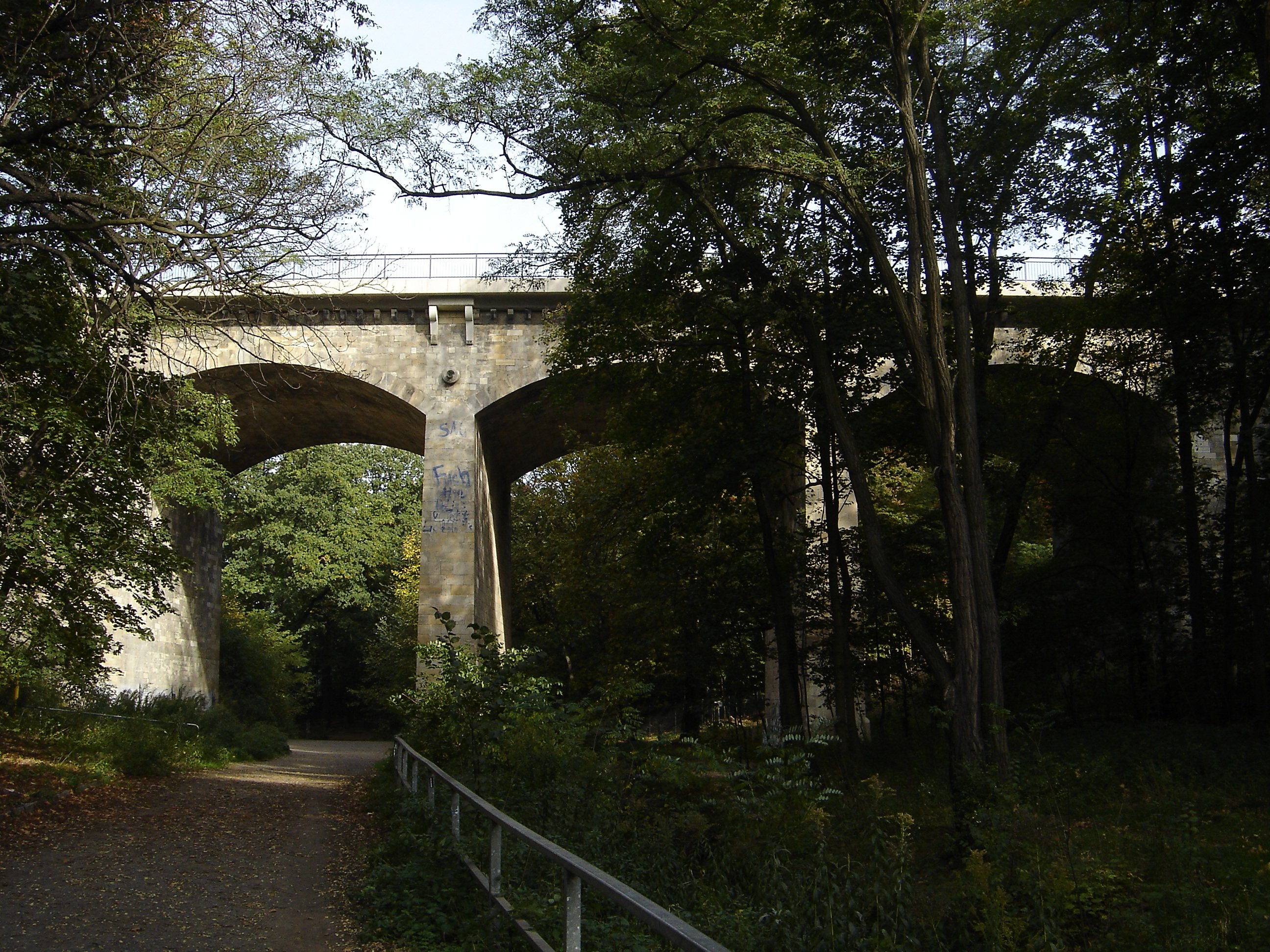 Carolabruecke in Alberstadt, Dresden